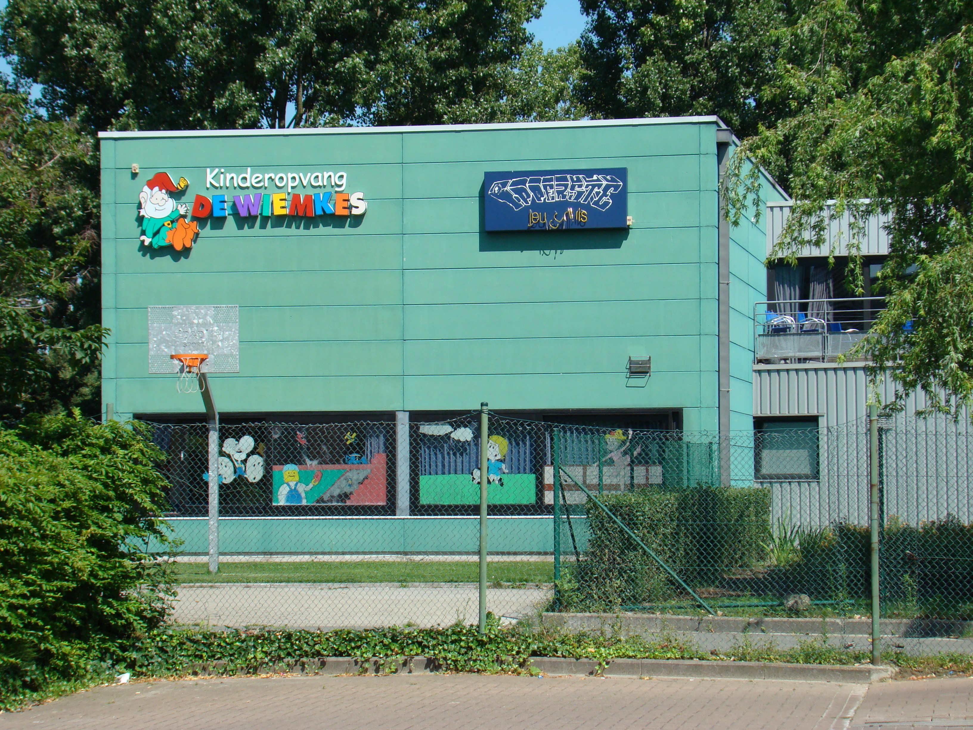 Oostrozebeke (West Flanders, Belgium)